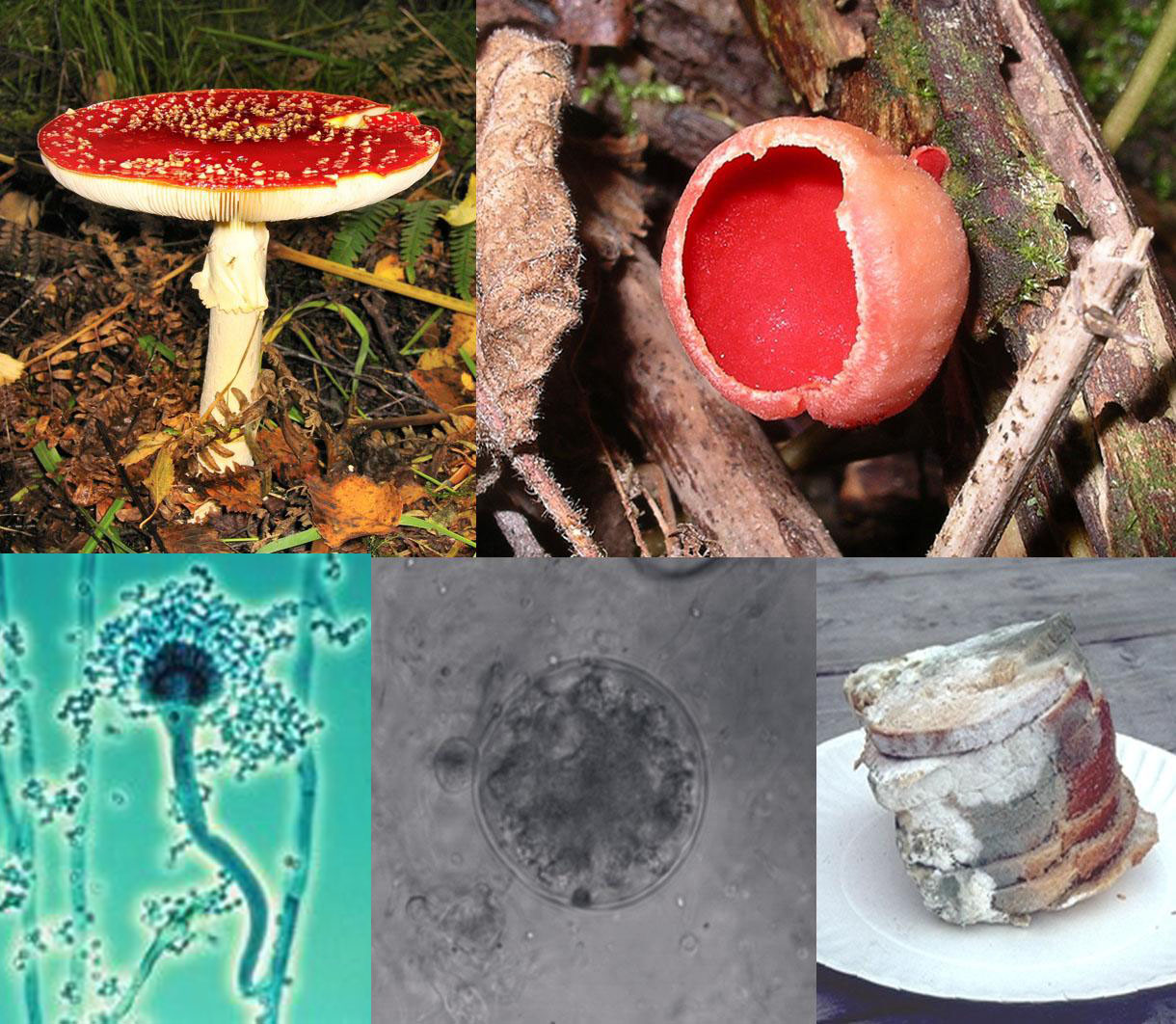 A series of fungi. Individual descriptions can be found on the source pages listed below.